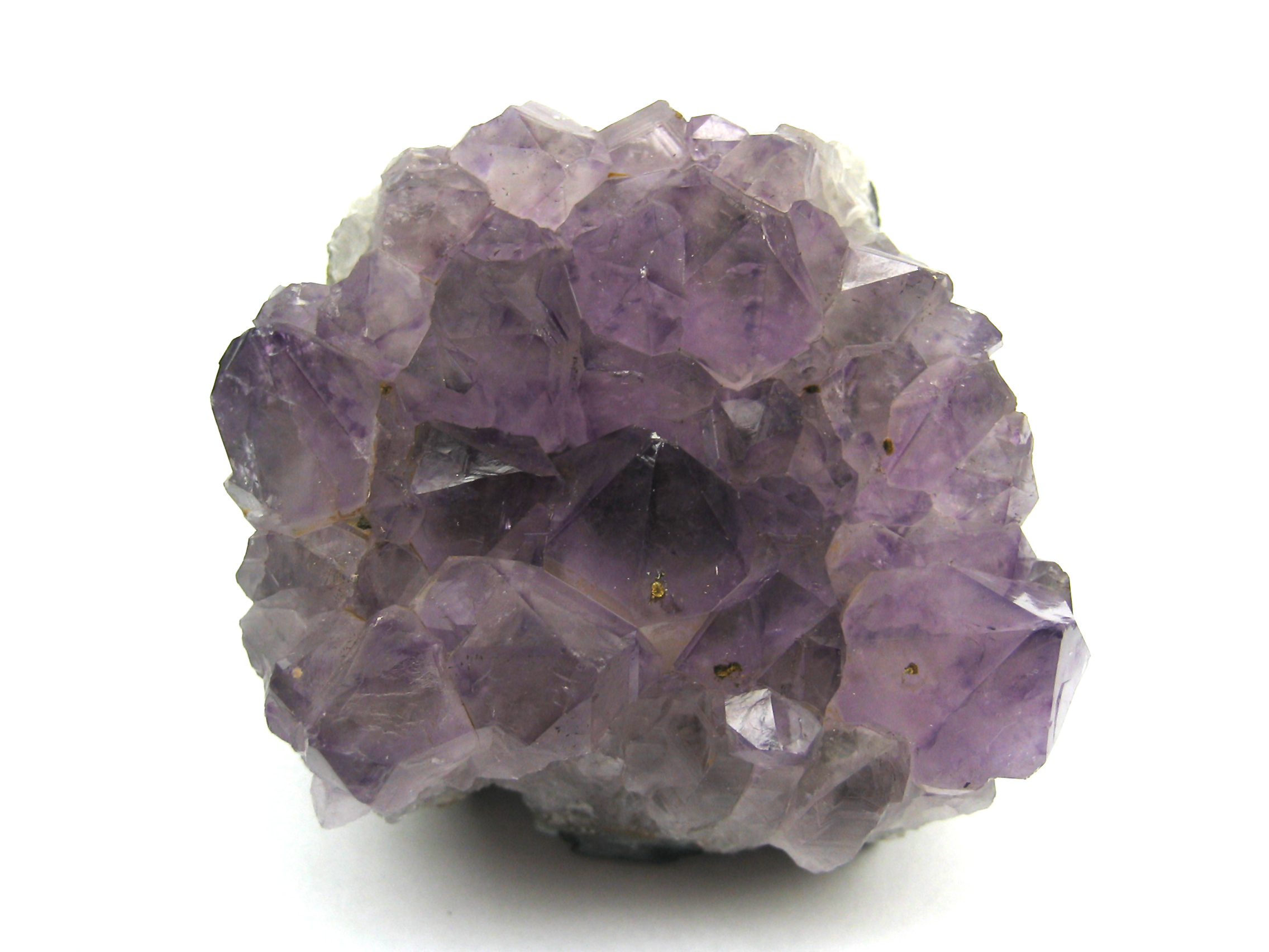 Macro of Amethyst Quartz. It is 3 inches (8 cm) long by 2 inches (5 cm) high.